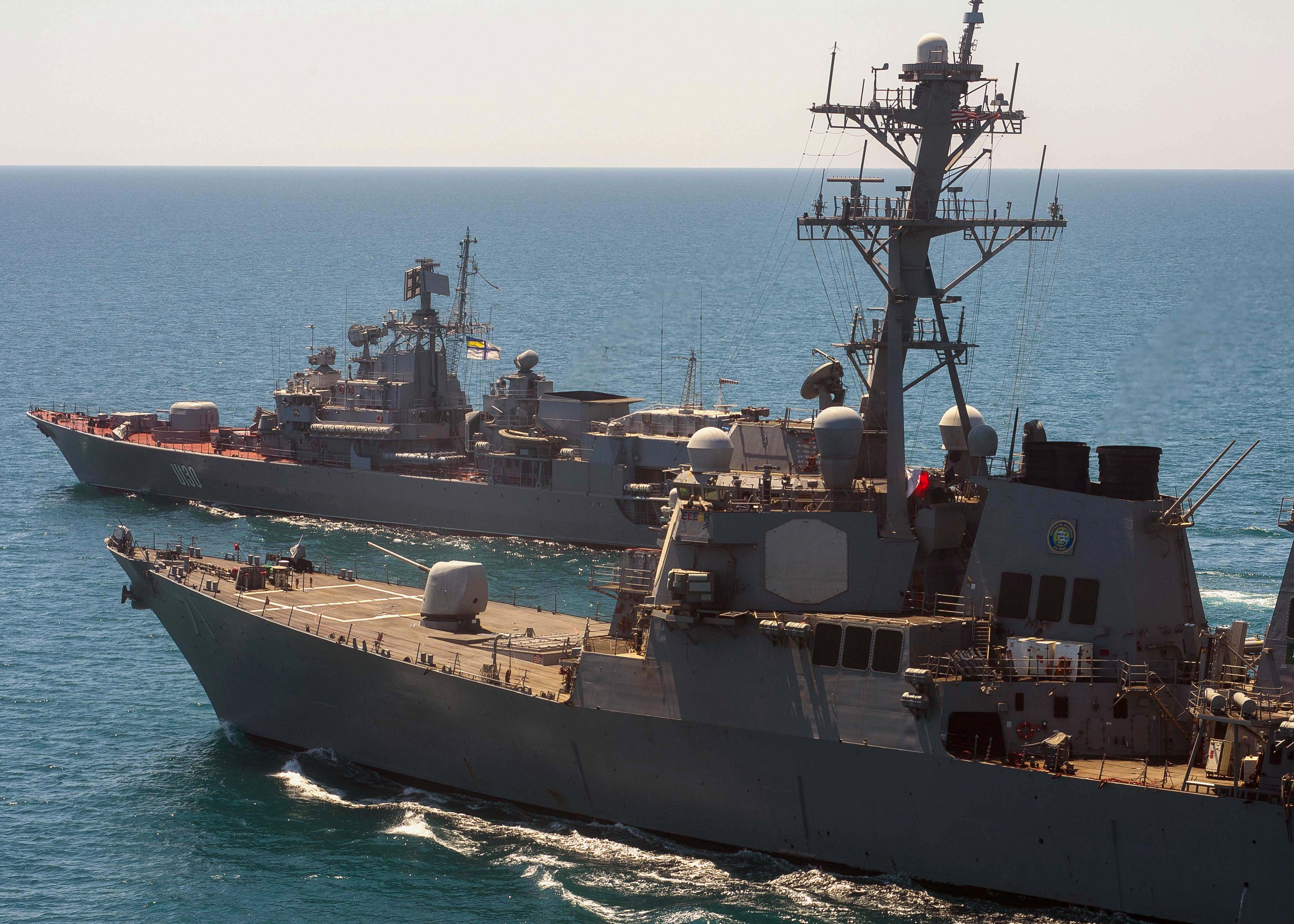 The guided-missile destroyer USS Ross (DDG 71), front, transits the Black Sea with the Ukranian navy frigate Hetman Sahaydachniy (U 130) during an underway exercise. Ross is conducting naval operations in the U.S. 6th Fleet area of operations in support of U.S. national security interests in Europe.